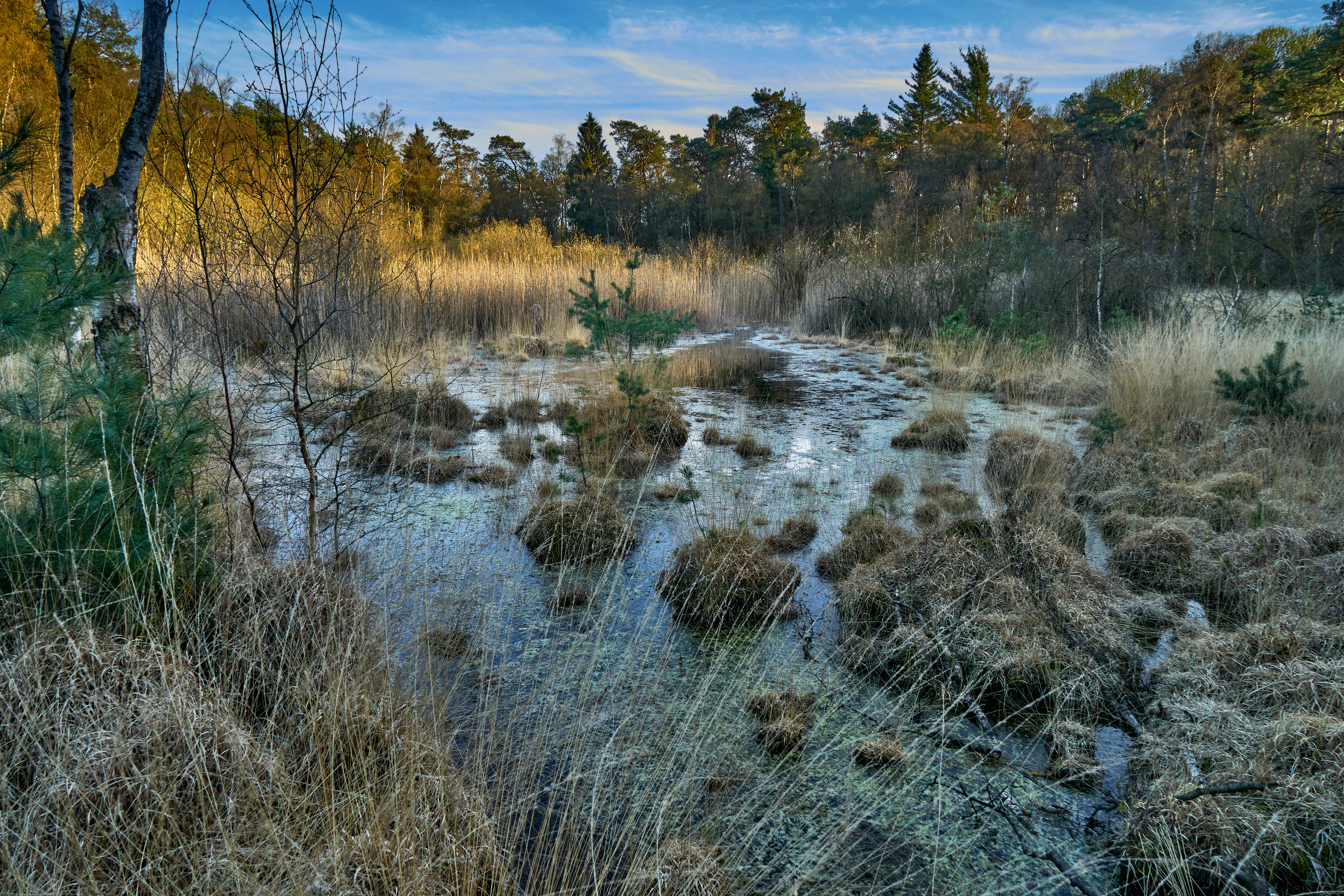 [Nature reserve Burlo-Vardingholter Venn und Entenschlatt near Burlo, Borken, North Rhine-Westphalia, Germany.